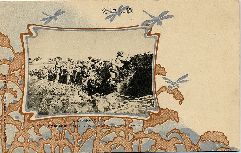 Japanese postcard depicting the Battle of Liaoyang in the Russo-Japanese War of 1904-1905. Published 1905.2.11 by the Japanese Ministry of Communication.